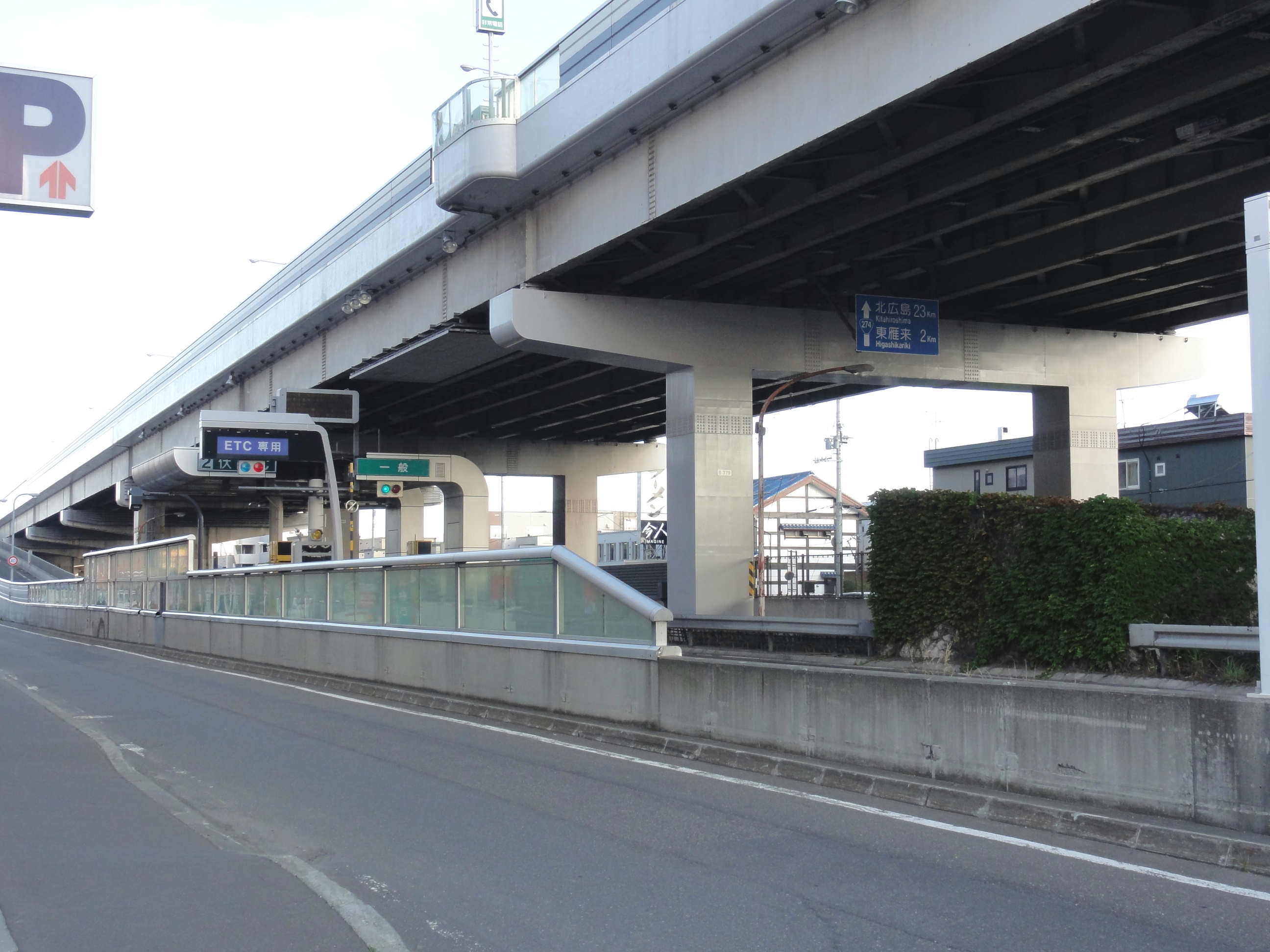 Sasson Expressway, Fushiko IC (Higashi-ku, Sapporo, Hokkaidō)